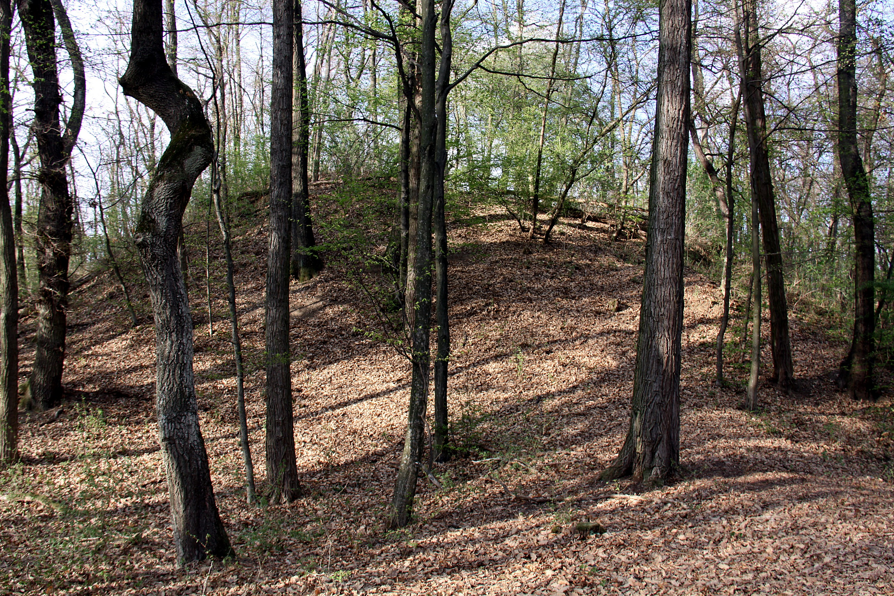 Schandorf - Tumulis in Bauernwald